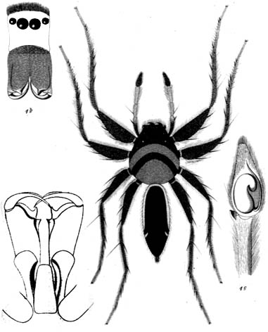 Cosmophasis micans